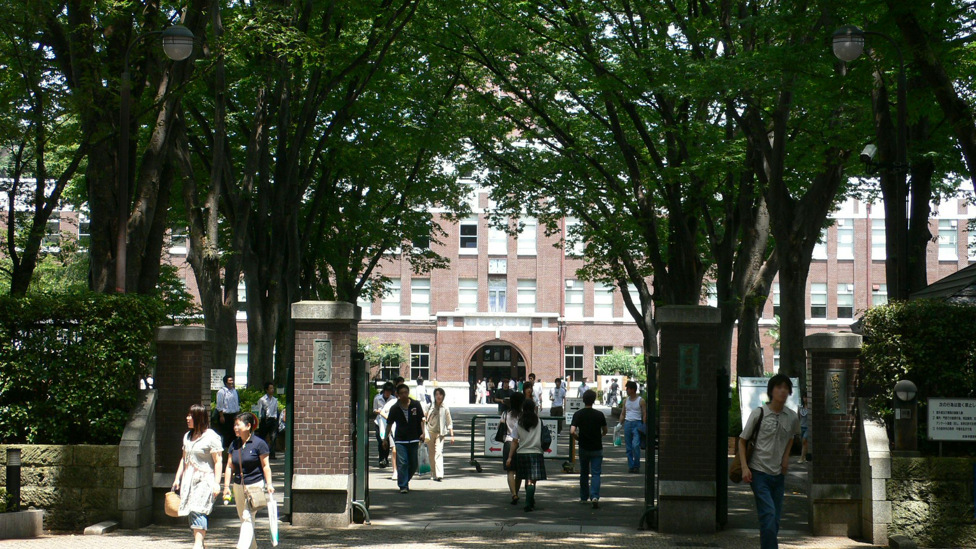 Seikei_University Front gate -July.30.2006